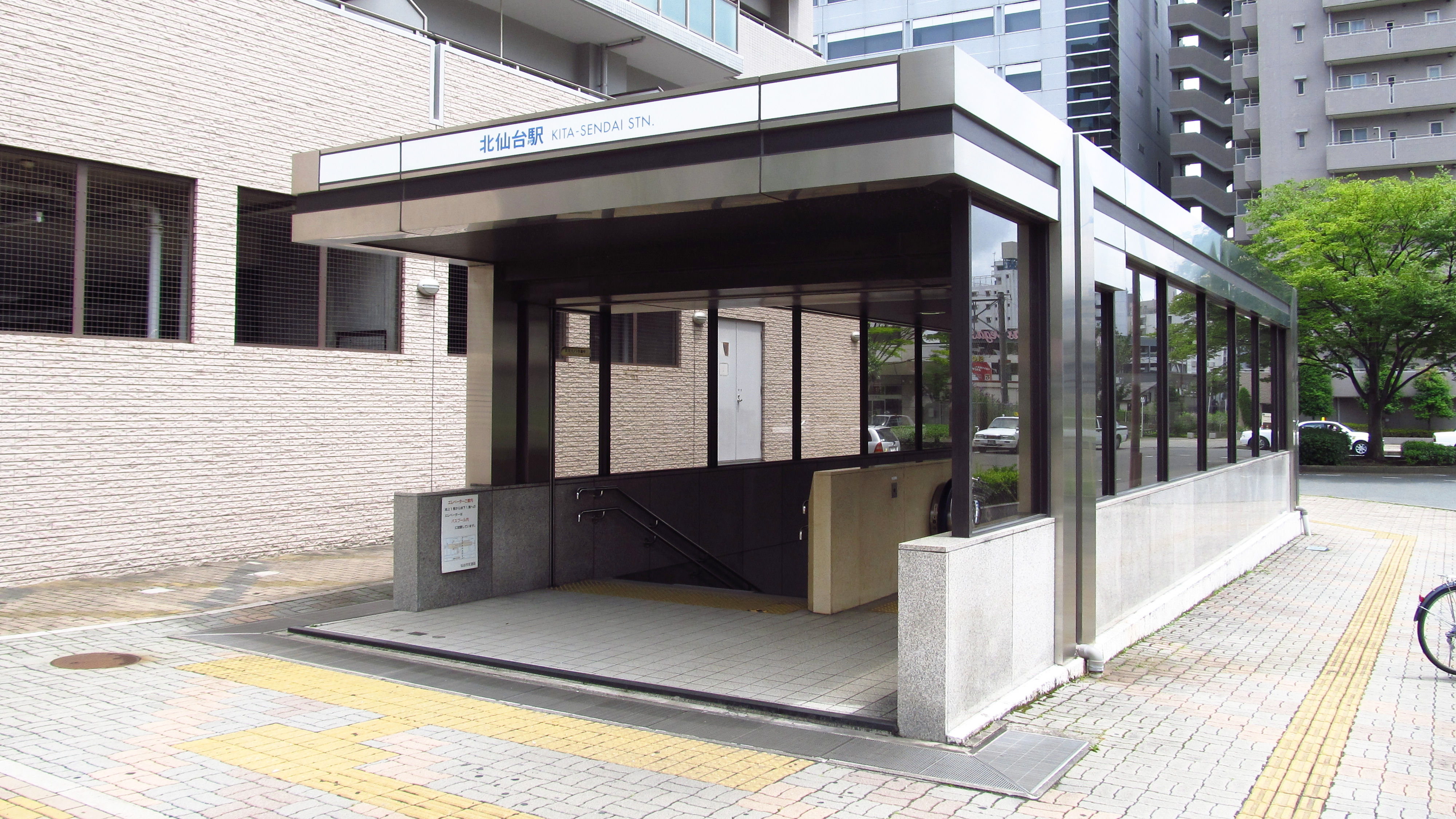 The kita-1(north-1) entrance to Kita-Sendai Station on Sendai subway Nanboku Line in Aoba-ku, Sendai, Japan